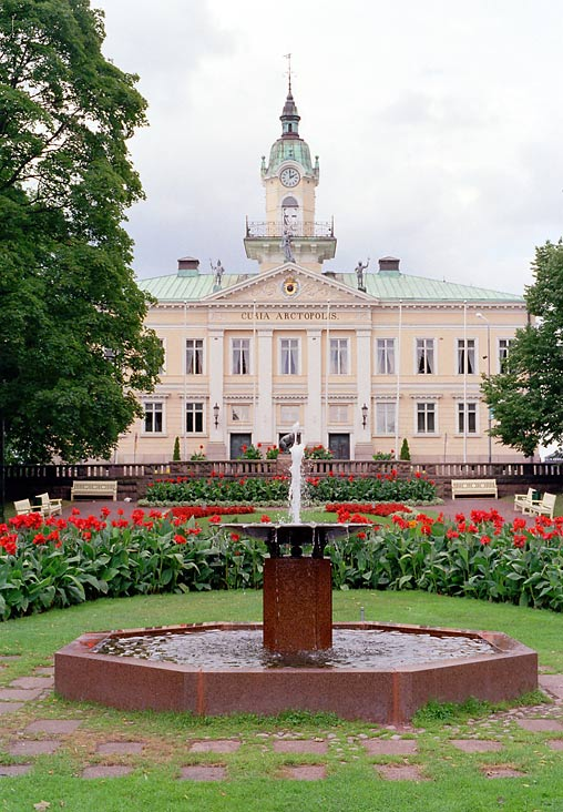 The old Town hall of Pori, Finland. Built in 1839–1841. Architect: Carl Ludvig Engel.